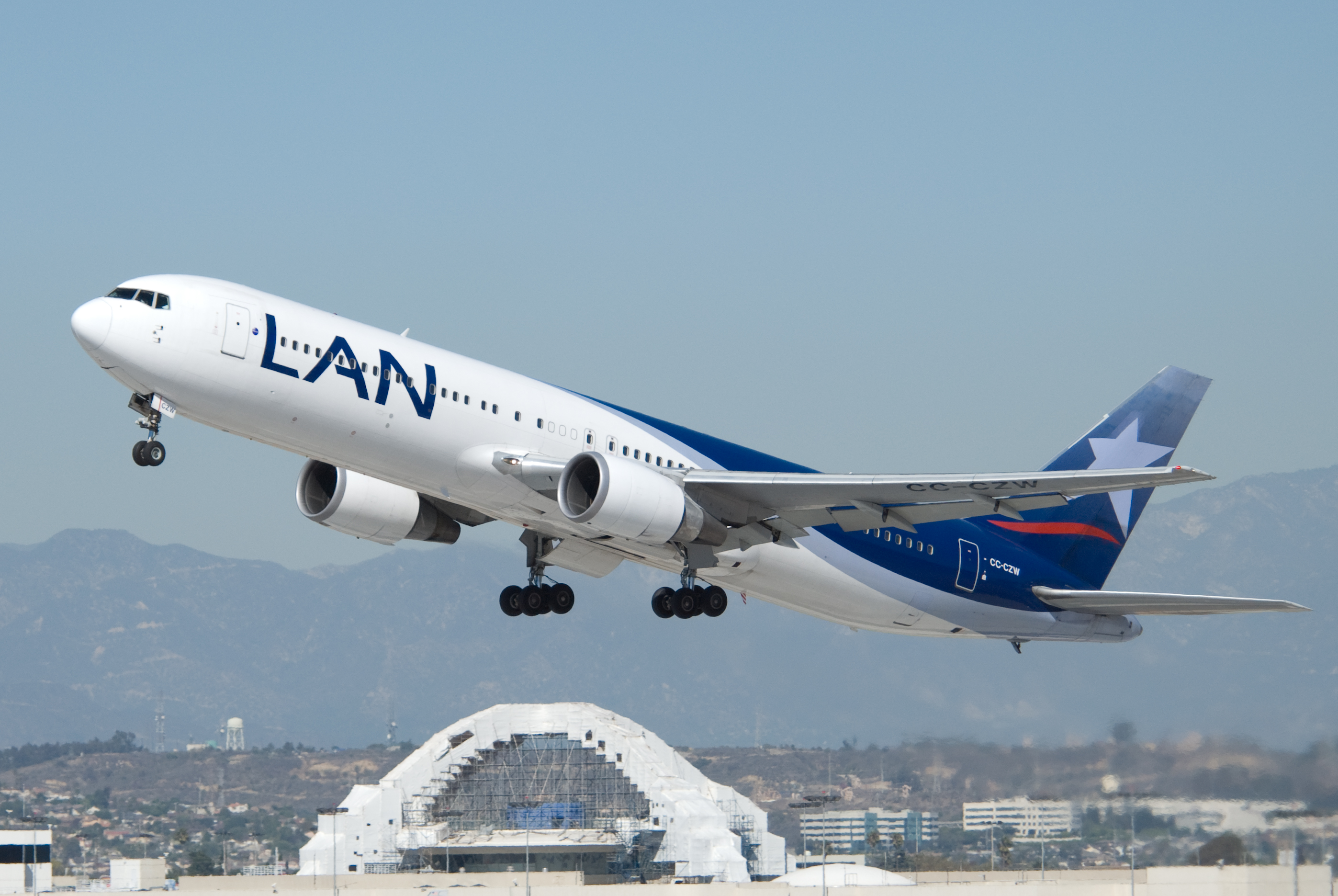 A LAN Chile Boeing 767-300 registered as CC-CZW.